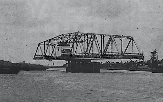 Cropped/enhanced version of the photo portion of the File: Oak Island Drawbridge.jpg